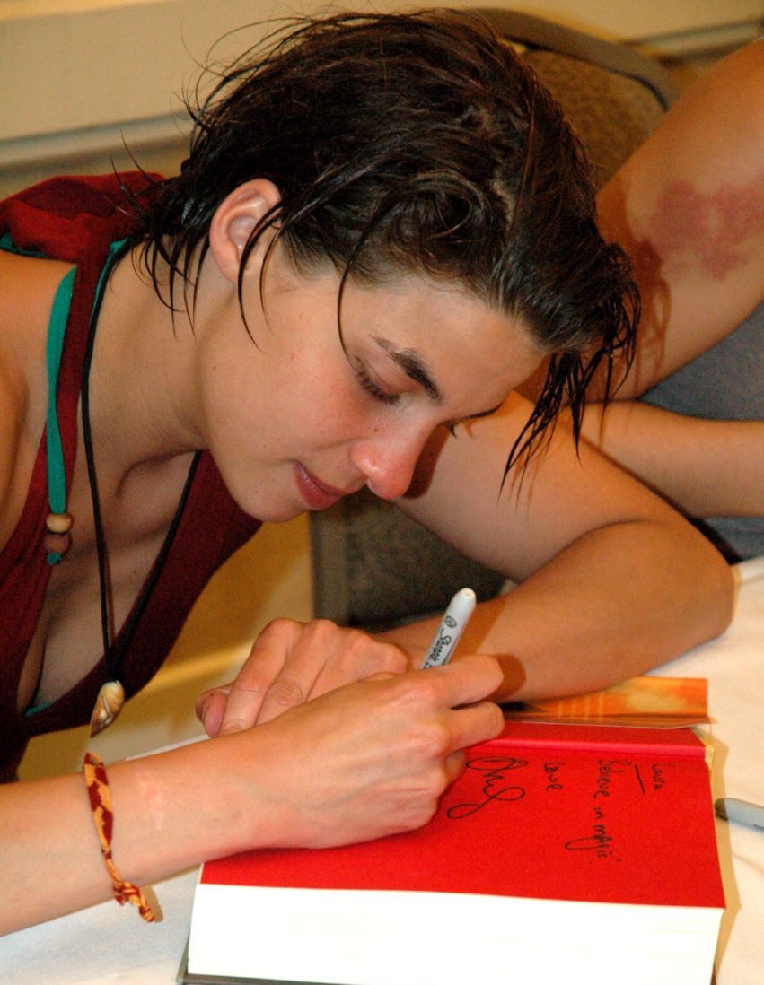 Natalia Gastiain Tena (born 1 November 1984) – a Anglo-Spanish actress and musician.